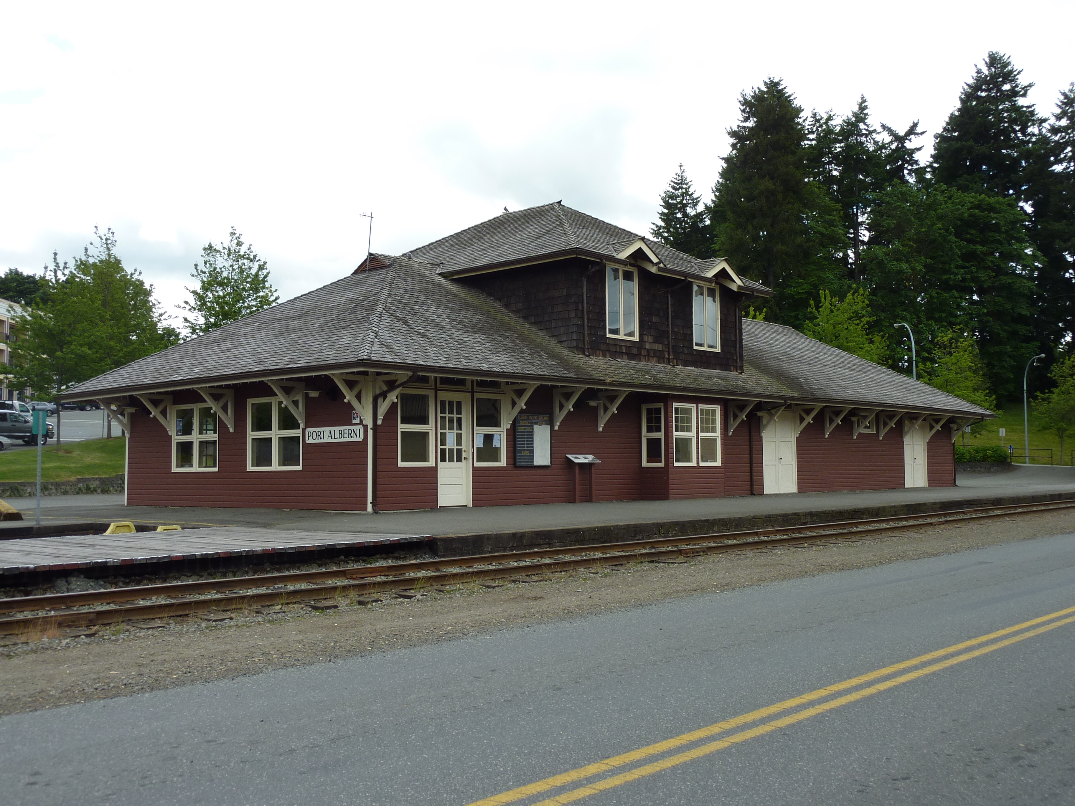 Railway station Port Alberni, British Columbia, Canada